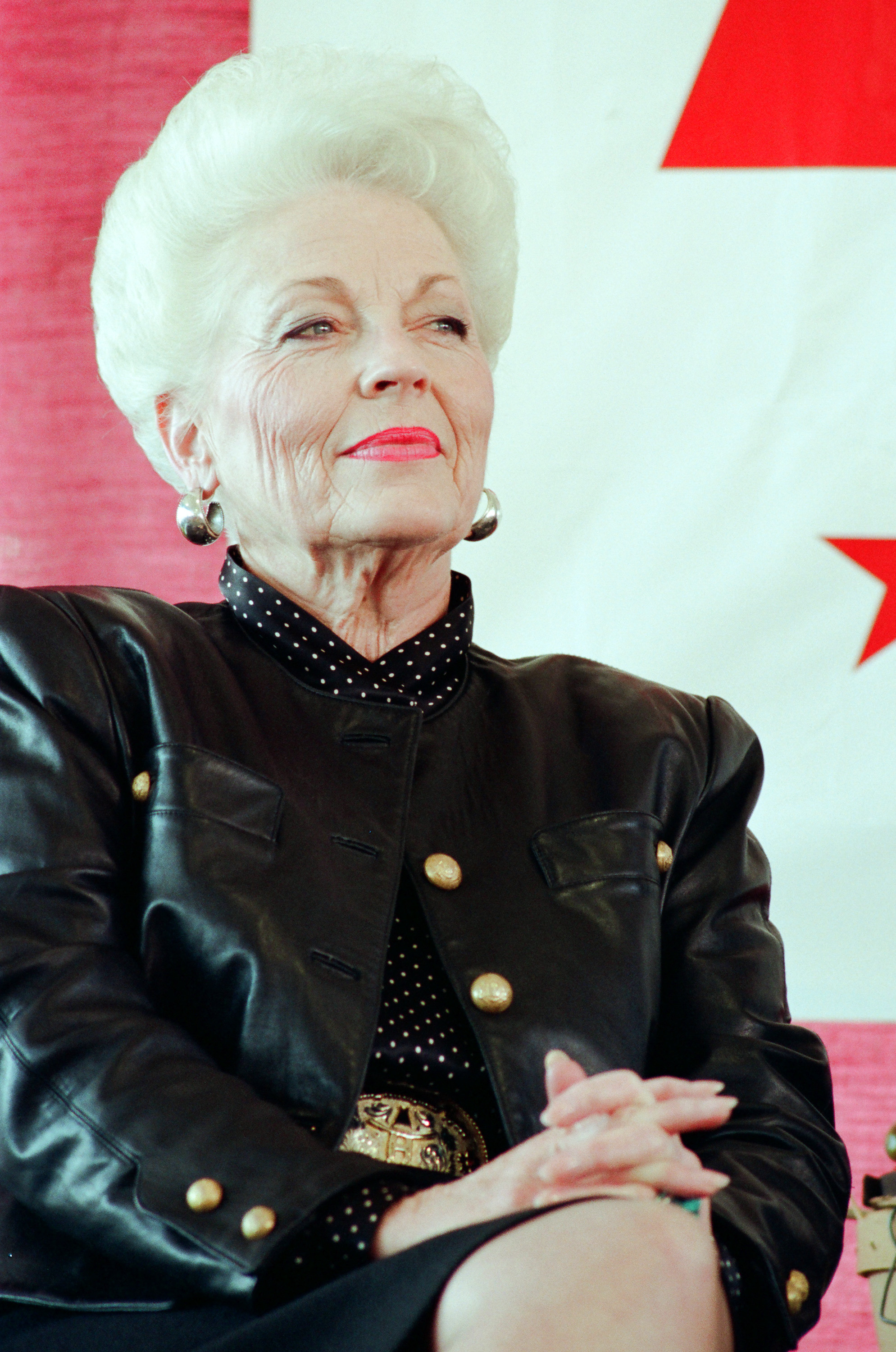 Ann Richards, Governor of Texas, campaigns in Raleigh NC on behalf of NC Governor Jim Hunt. October 18, 1992.